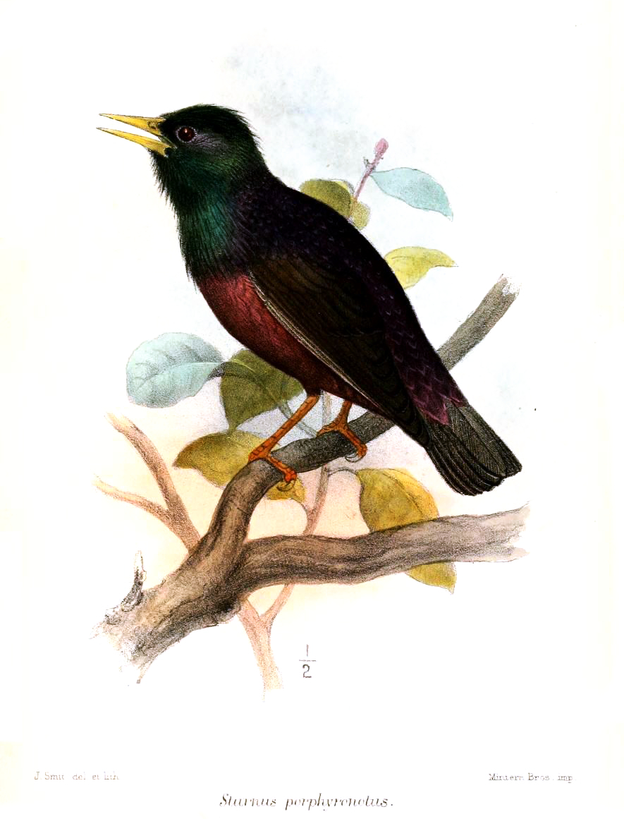 Sturnus porphyronotus = Sturnus vulgaris porphyronotus, Common Starling ssp.